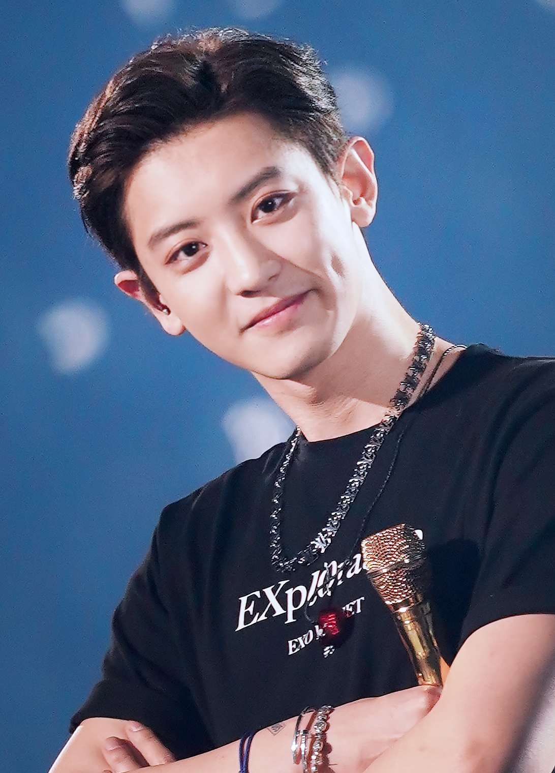 Chanyeol during the Exo Planet 5 – Exploration concert on December 2019.